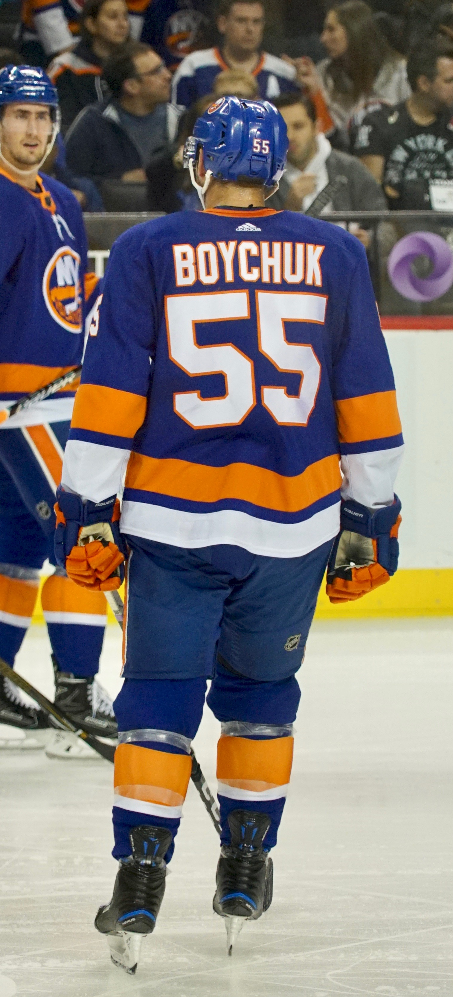 Johnny Boychuk with the Islanders in 2017.